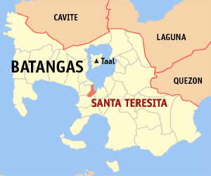 Map of Batangas showing the location of Santa Teresita